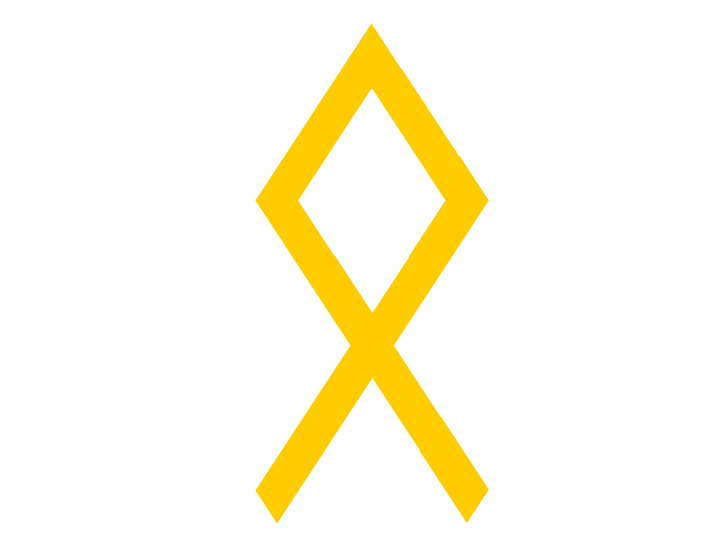 Mark of Ww2 GermanDivision Panzer 14 - Variant